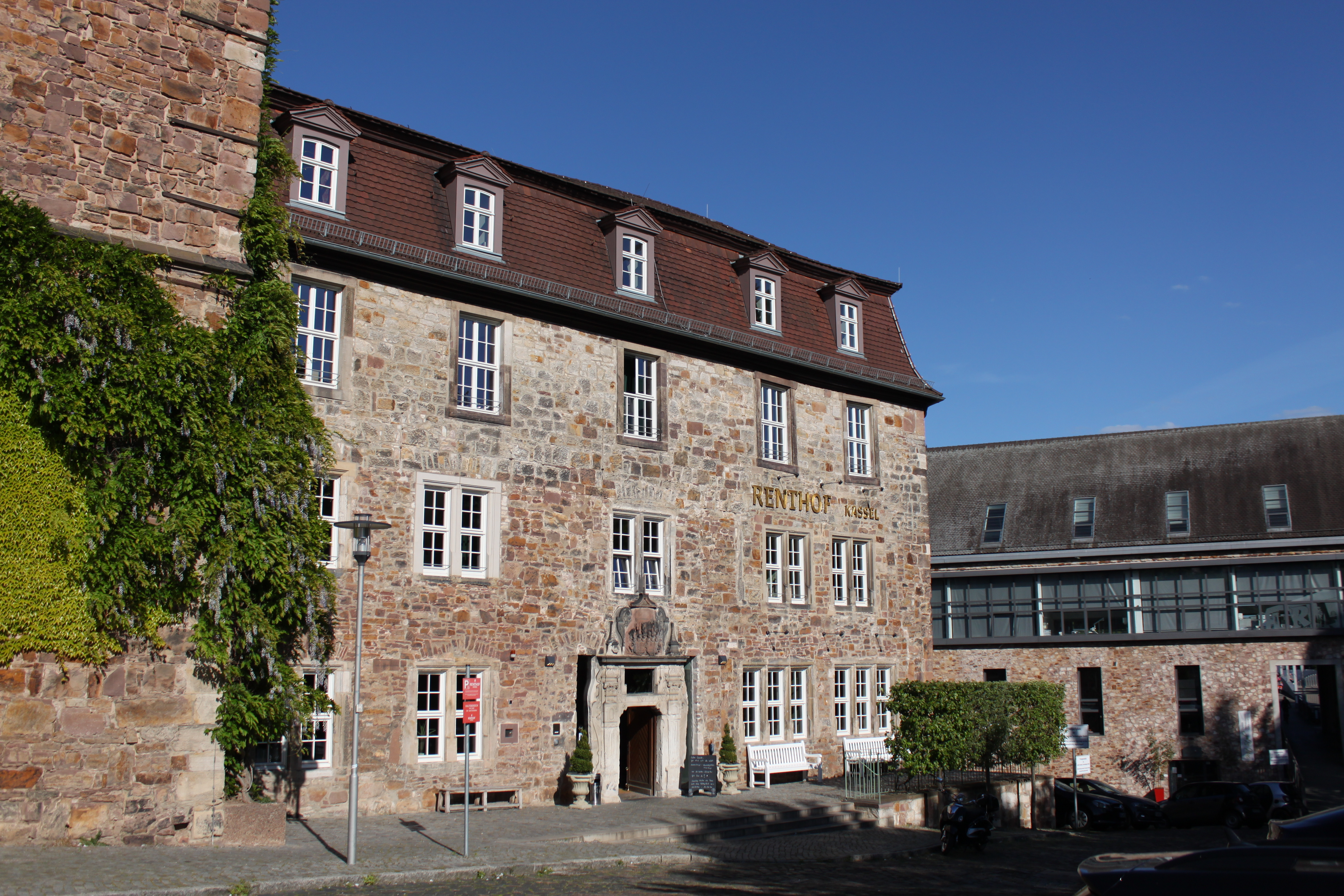 Renthof Kassel as Hotel (2020)